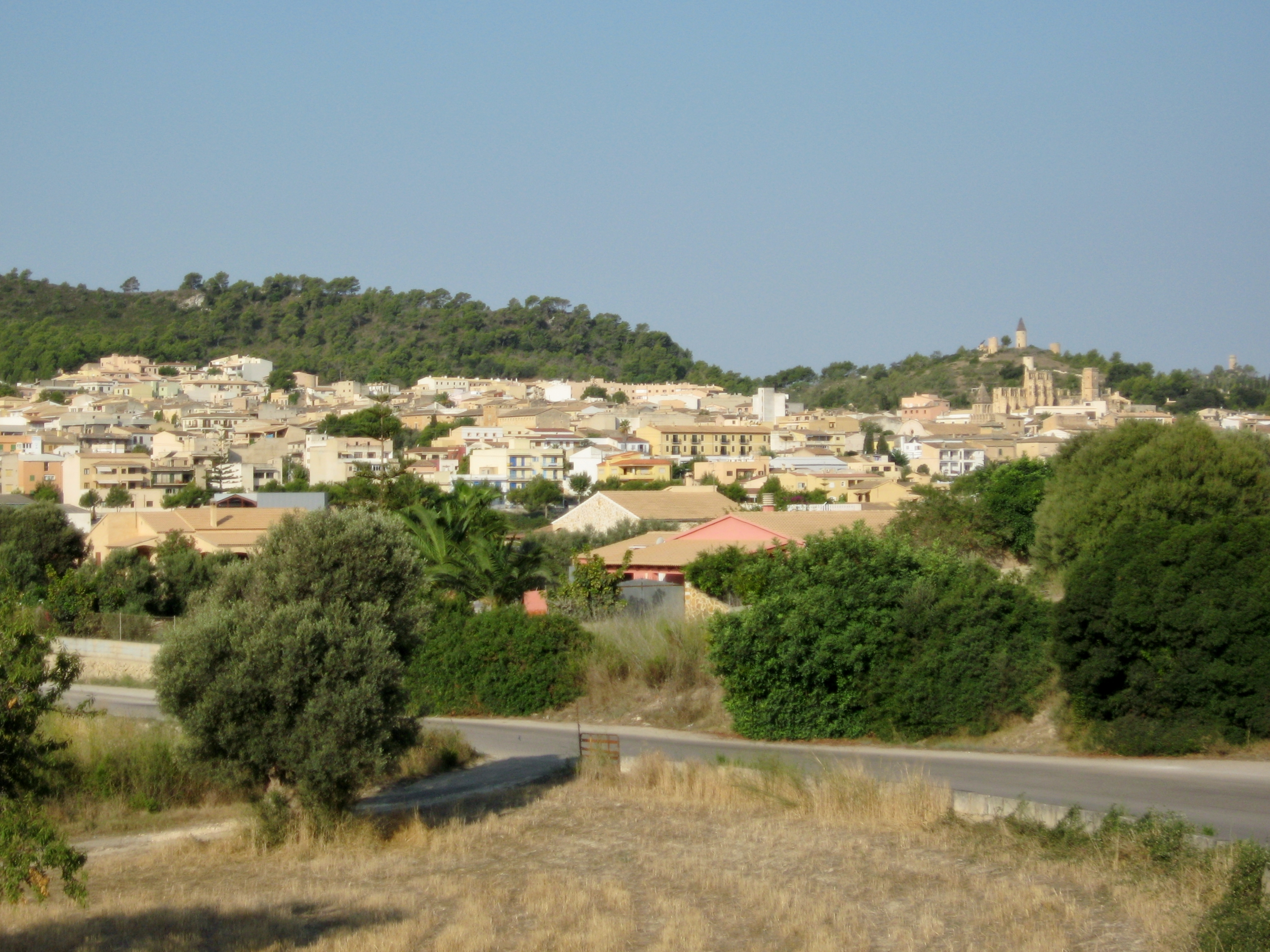 Son Servera, Mallorca, Spain